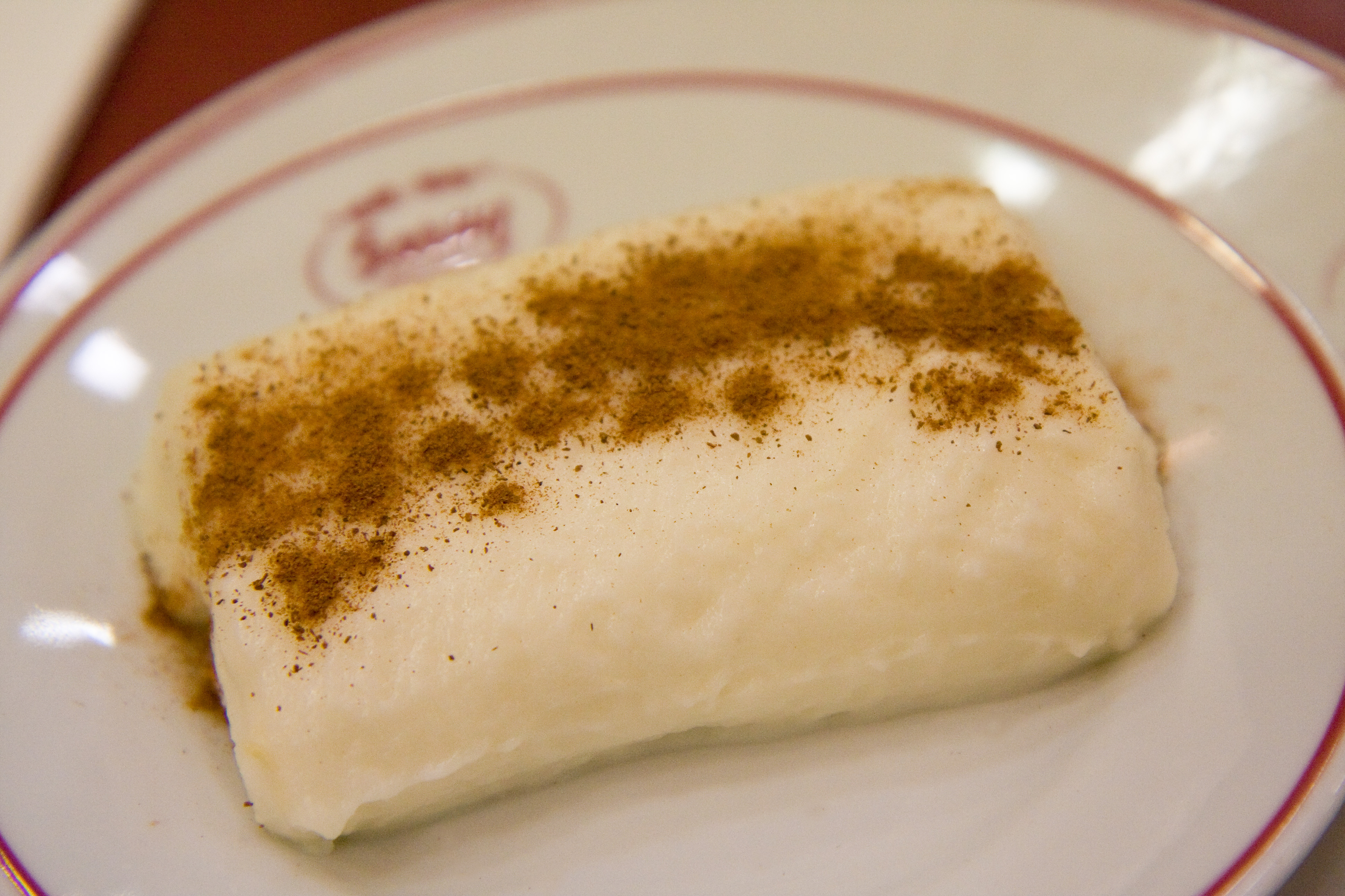 A sweet, gelatinous, milk pudding dessert quite similar to kazandibi, to which very thinly peeled chicken breast is added to give a chewy texture